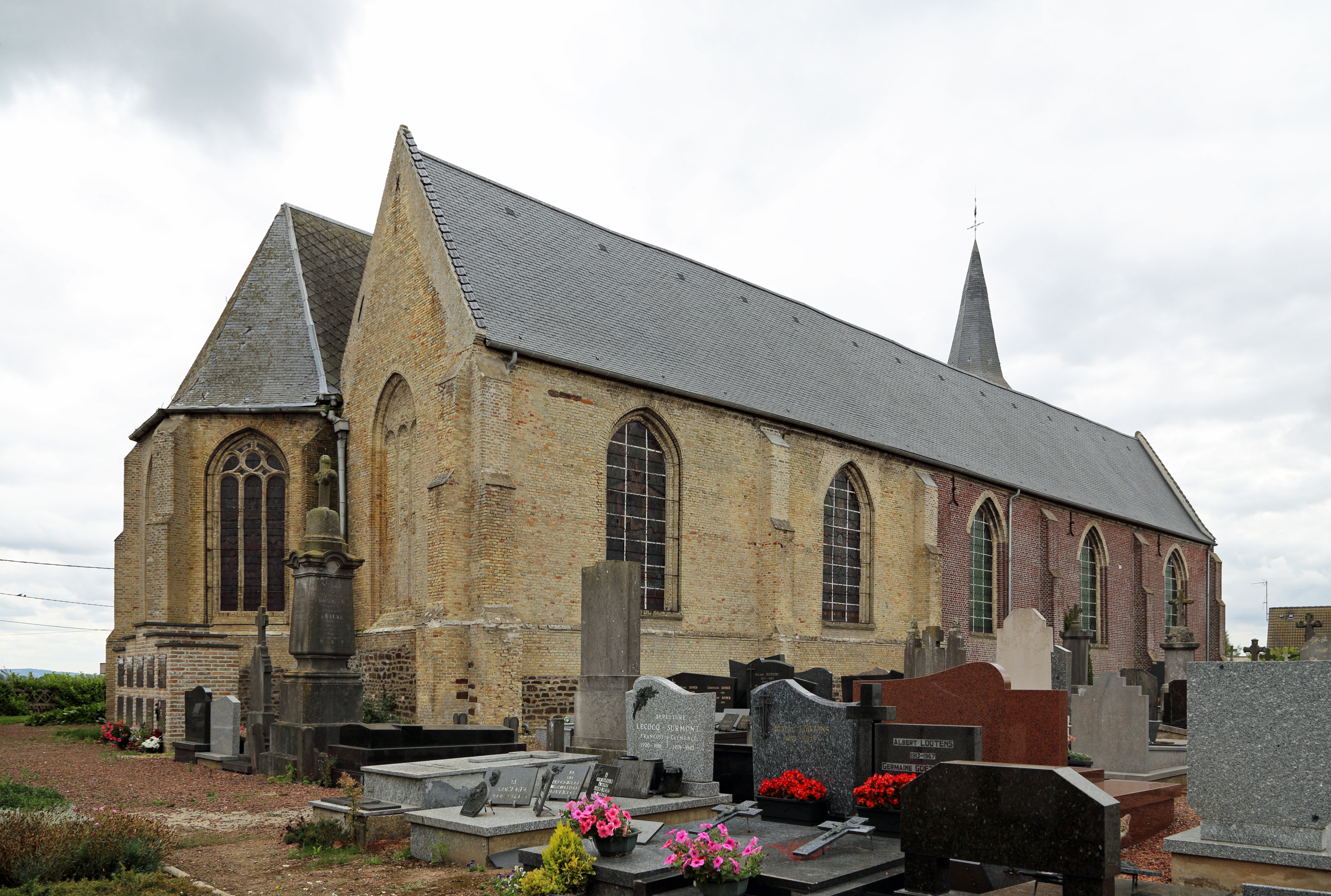 Oost-Cappel (Nord department, France): Saint Nicholas church and cemetery